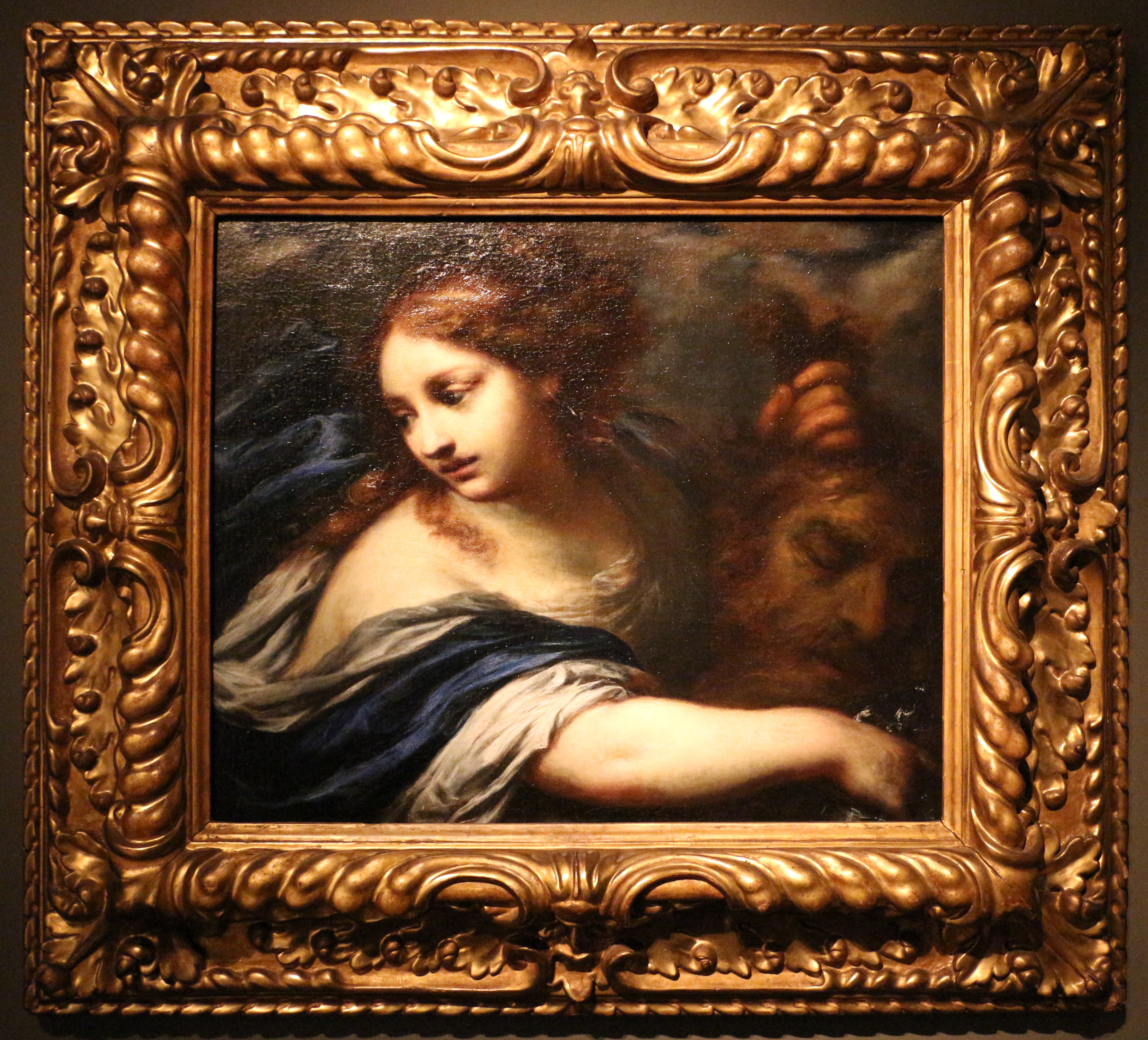 Courtesy of Rob Smeets